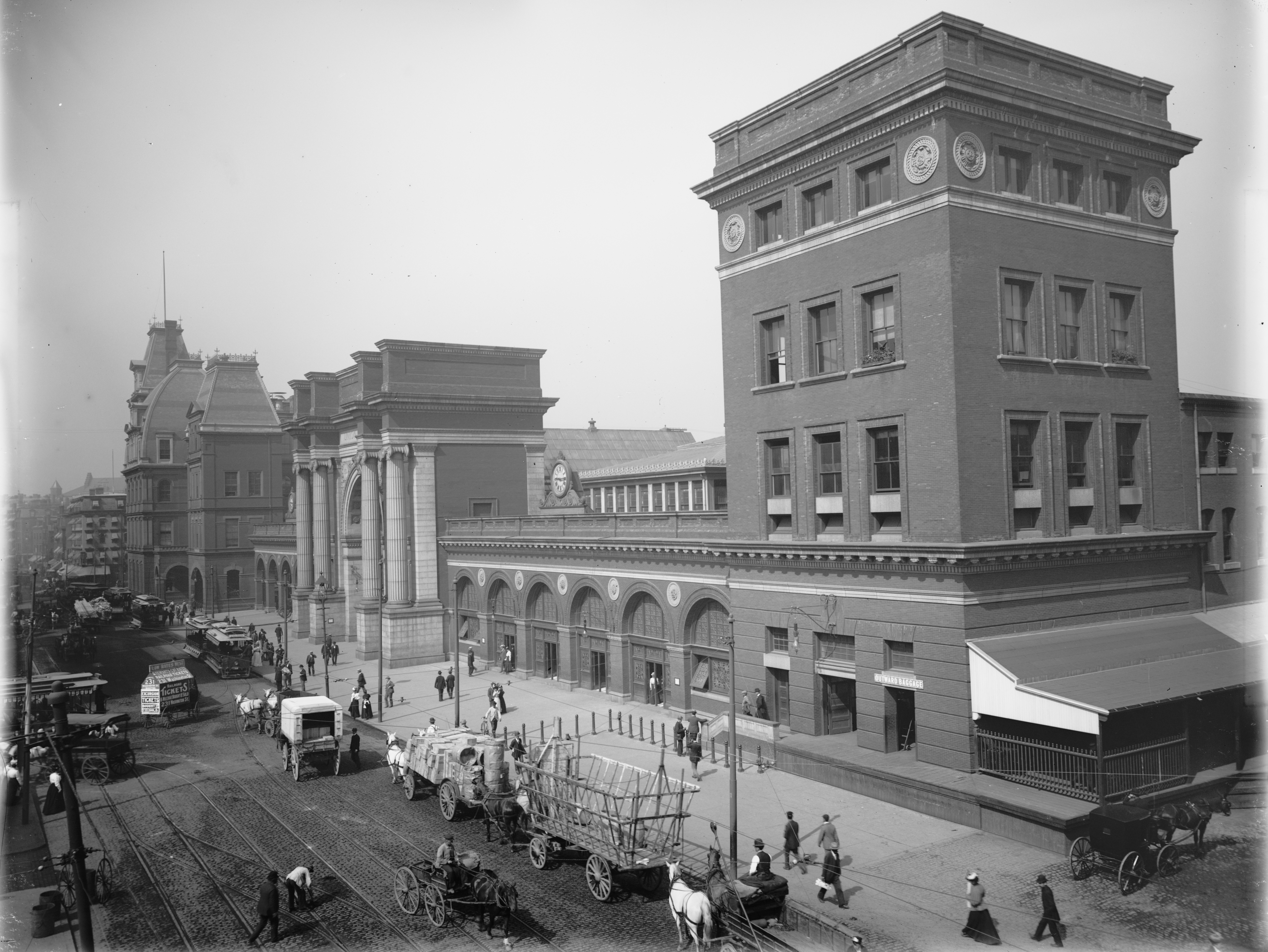 North Union Station in the 1890s